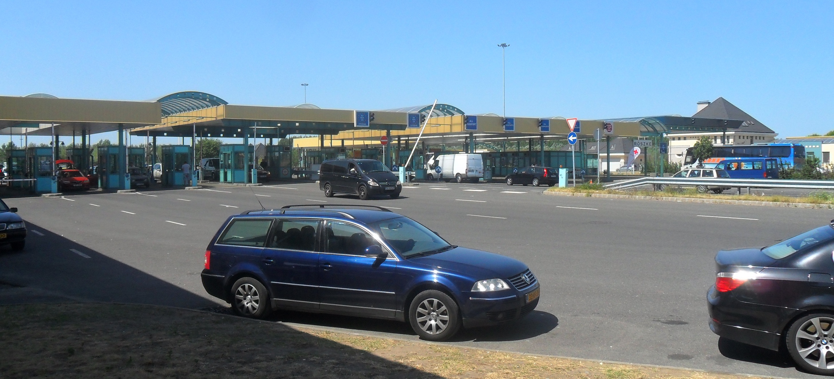 Border Station at Roszke, Hungary